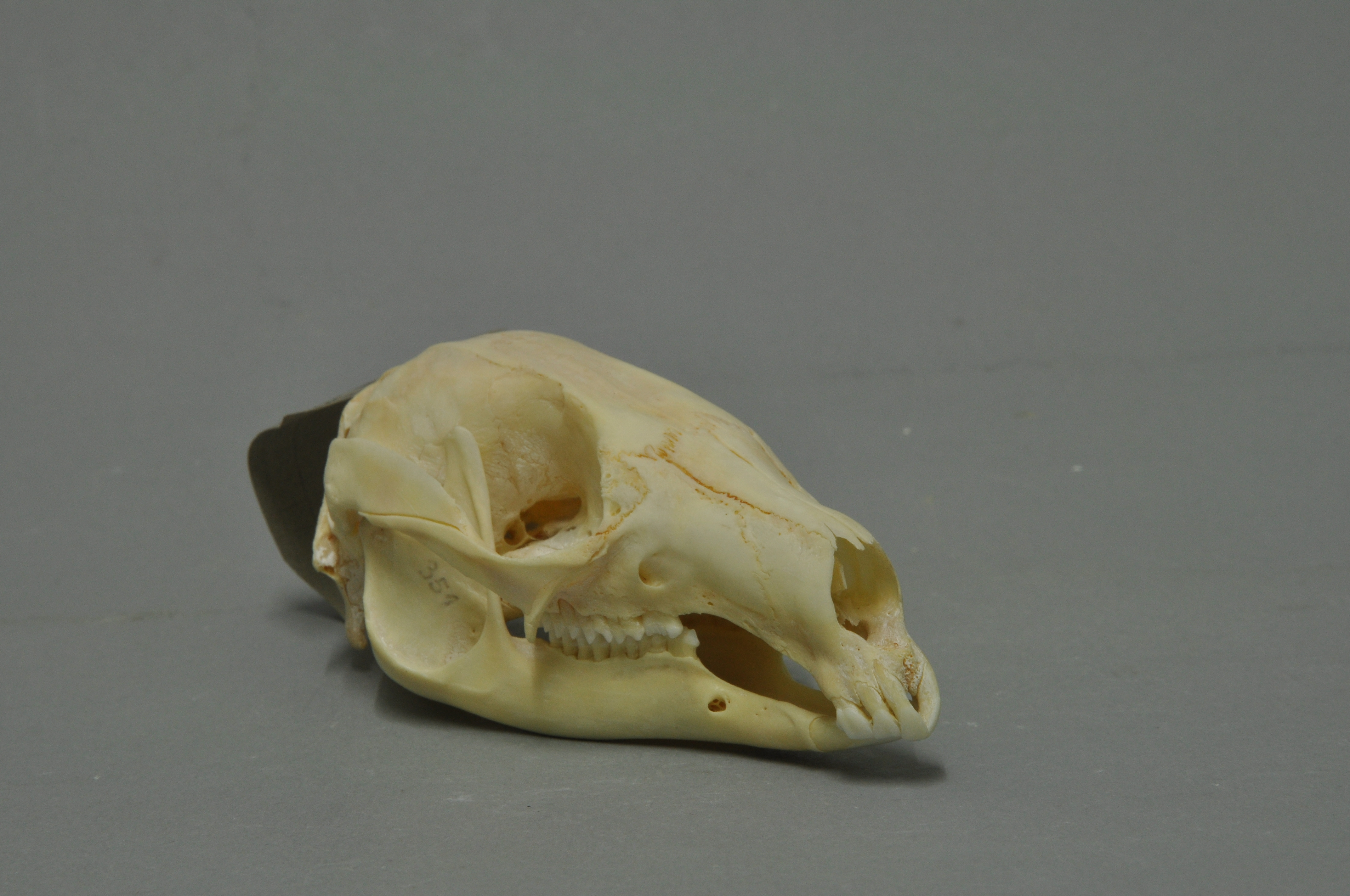 Tasmanian pademelonThylogale billardierii , skull, Coll. Museum Wiesbaden